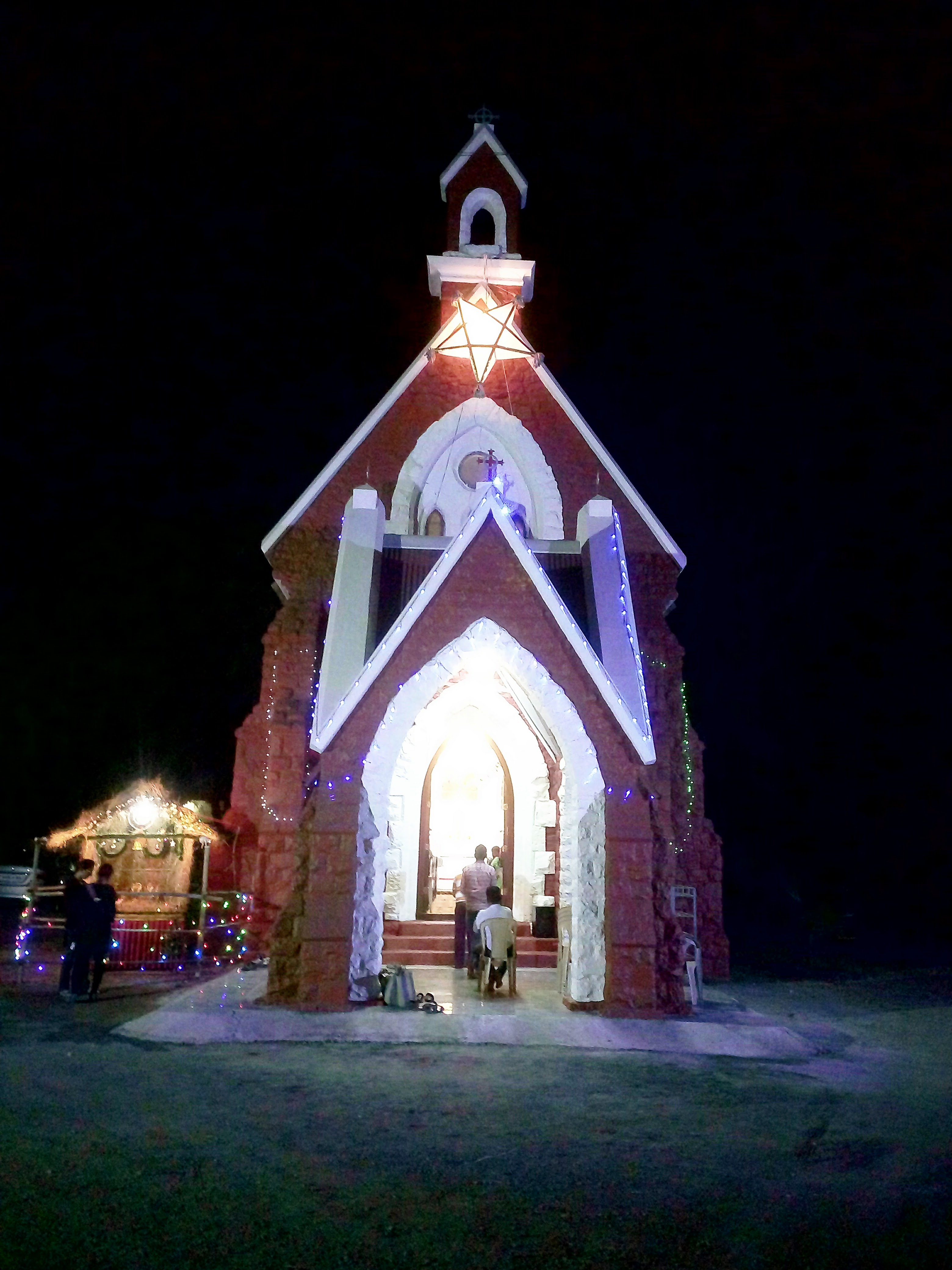 This church is a British Establishment of year 1873. It is decorated for the Christmas.